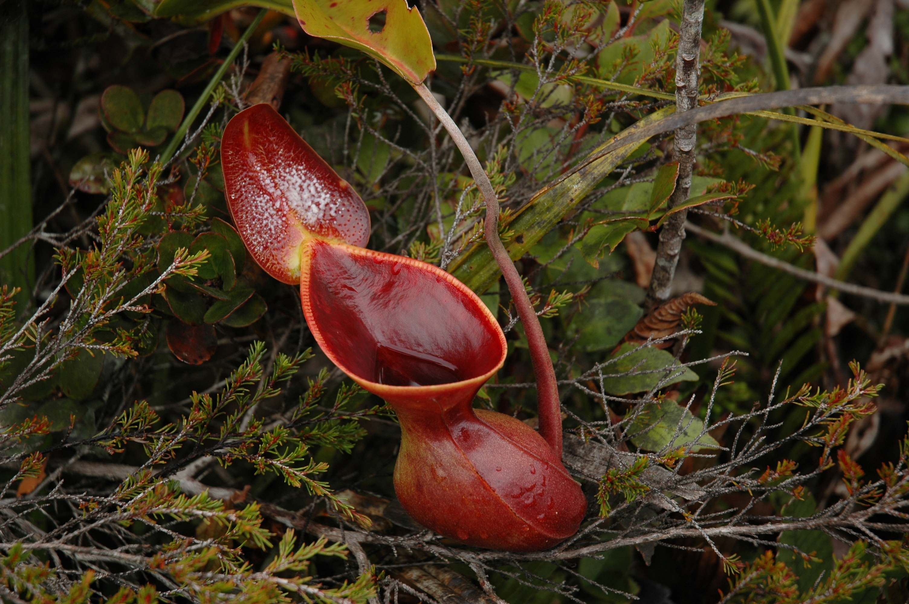 Nepenthes lowii Gunung Murud by Jeremiah Harris